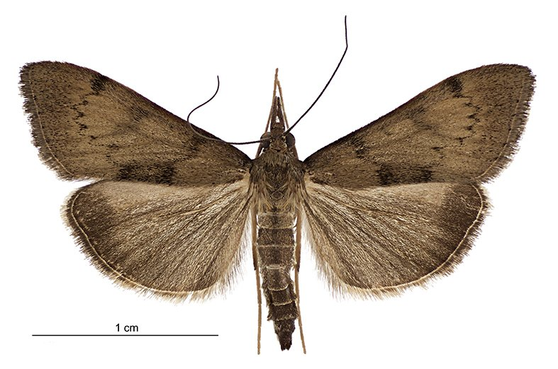 Specimen of Uresiphita polygonalis maorialis, photographed by Birgit E. Rhode, Landcare Research New Zealand Ltd.